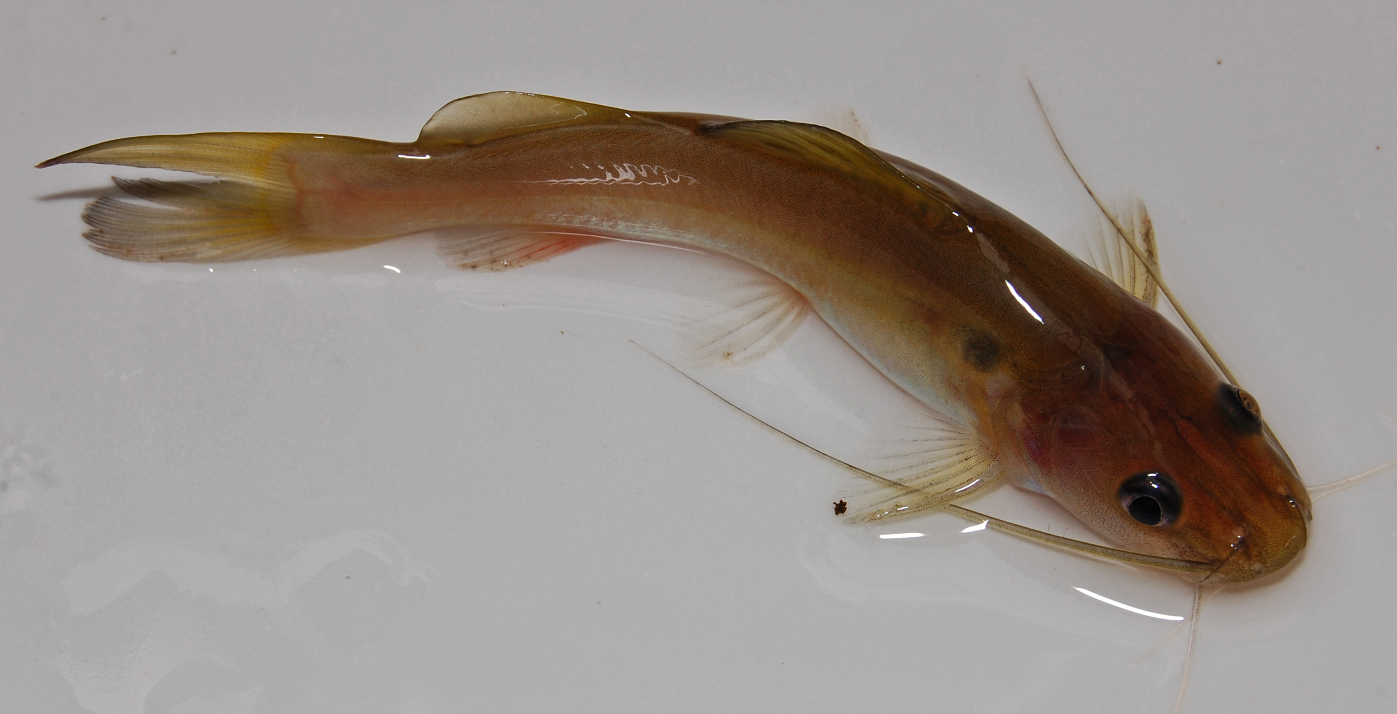 Hemibagrus planiceps (77mm SL). From Cikupret (small stream) of Cisadane drainage at Darmaga (6°34’S 106°43’E), Bogor, West Java, Indonesia